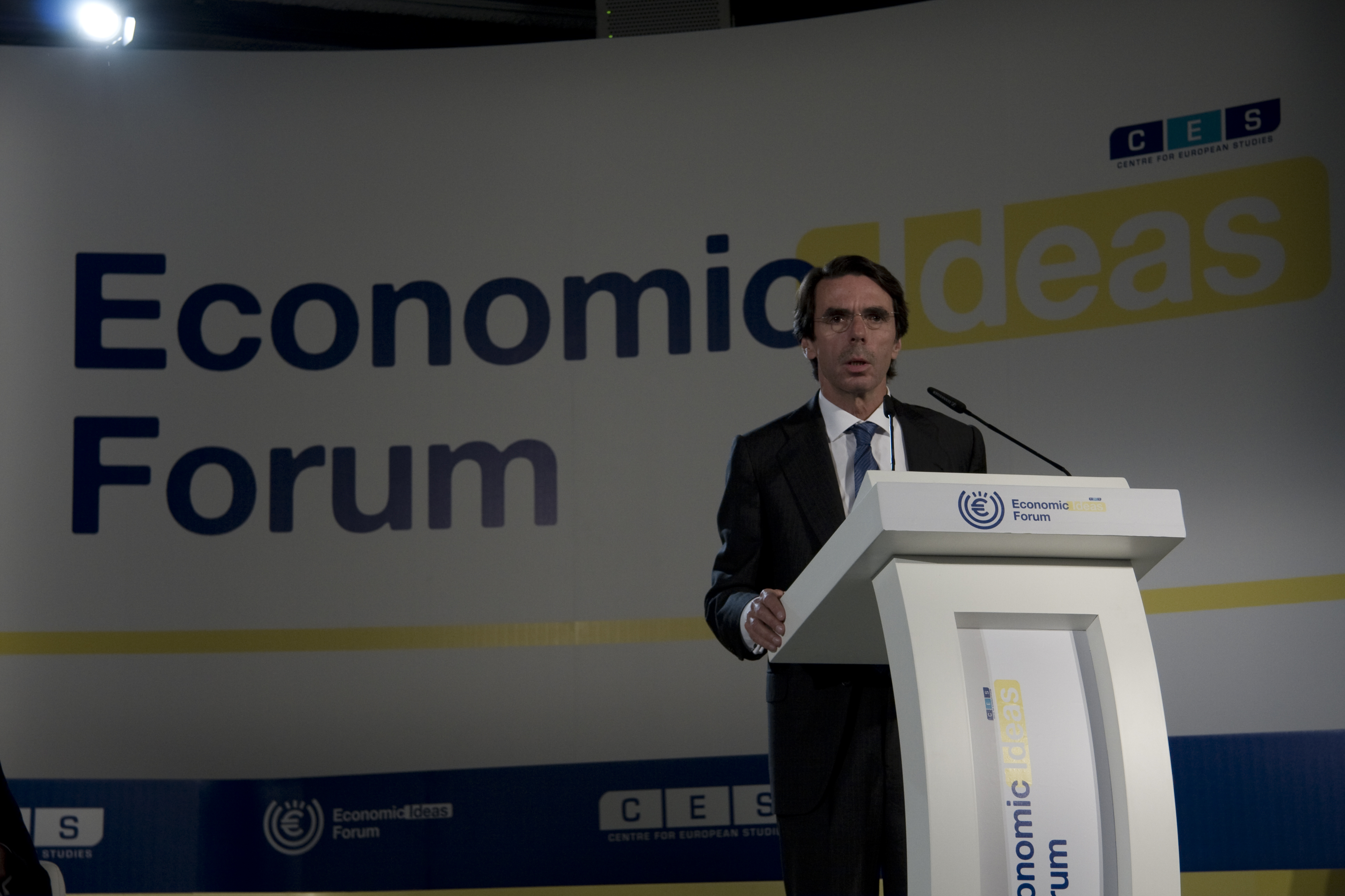 Economic Ideas Forum, Madrid, Spain